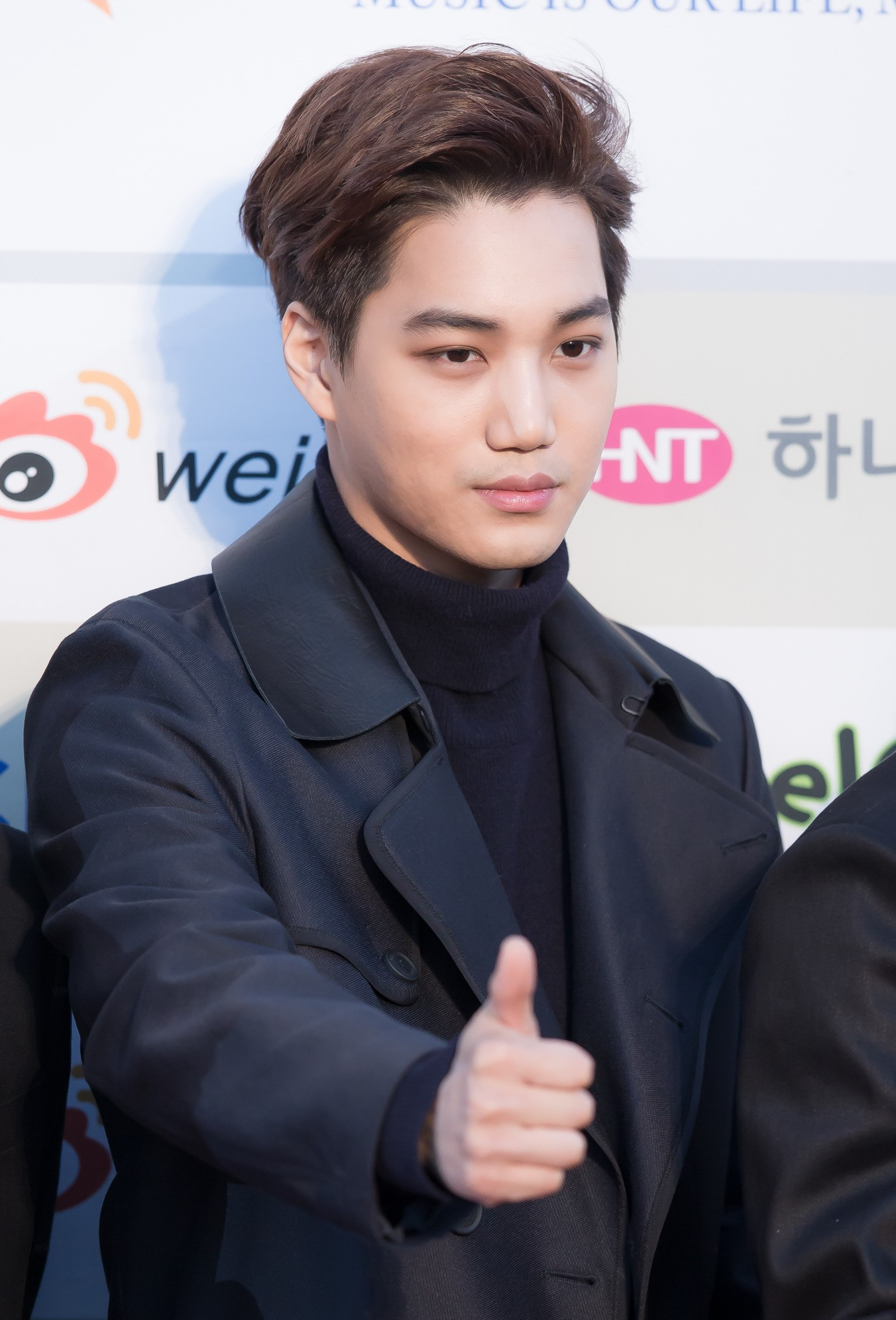 Kai at Gaon Chart K-pop Awards red carpet, on February 17, 2016